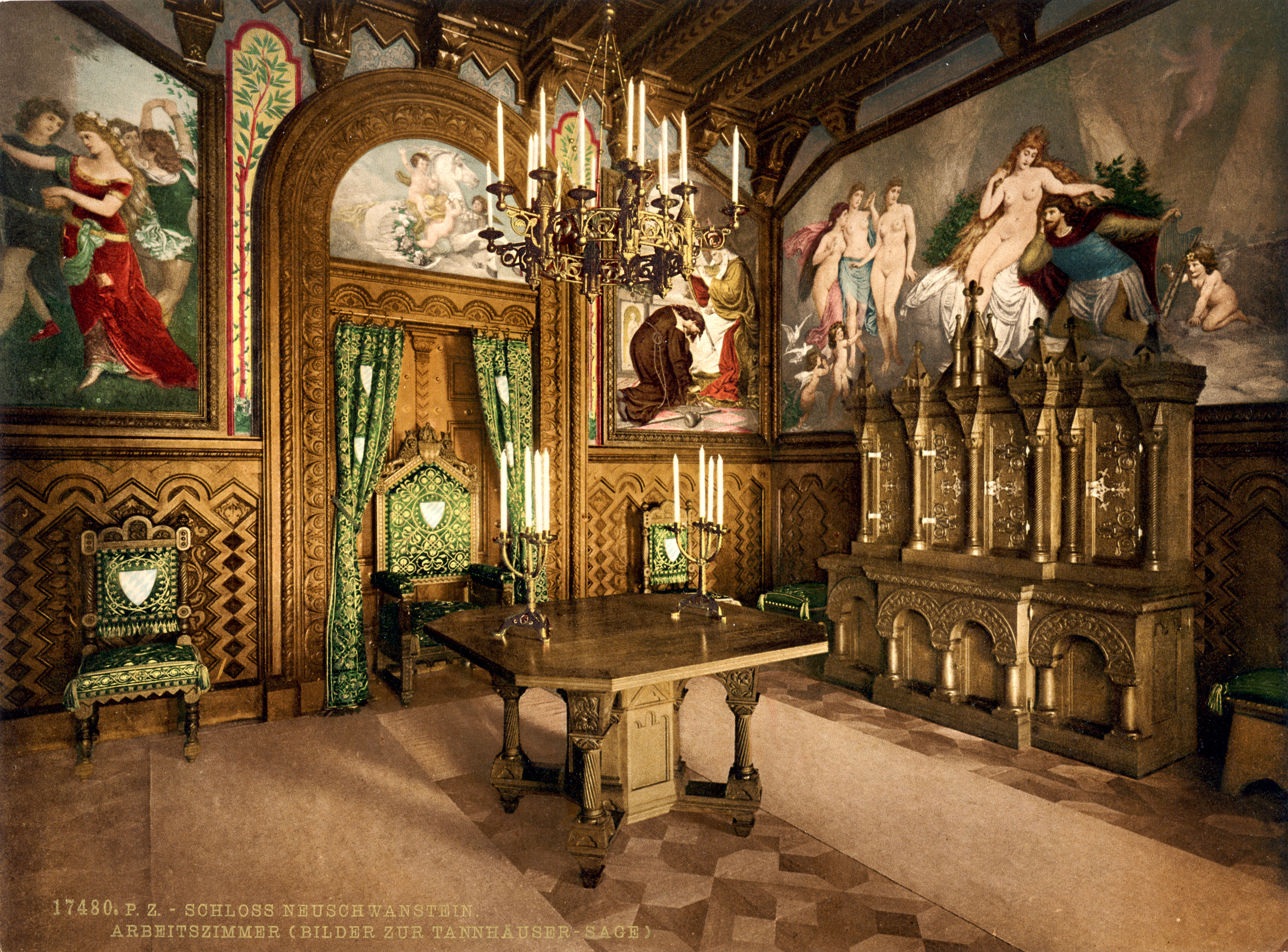 Pictures of the Tannhauser story, Study (Arbeitszimmer), Neuschwanstein Castle, Upper Bavaria, Germany. Photograph by Joseph Albert 1886, postcard published ca. between 1890 and 1900. Detroit Publishing Co. print no. 17480.